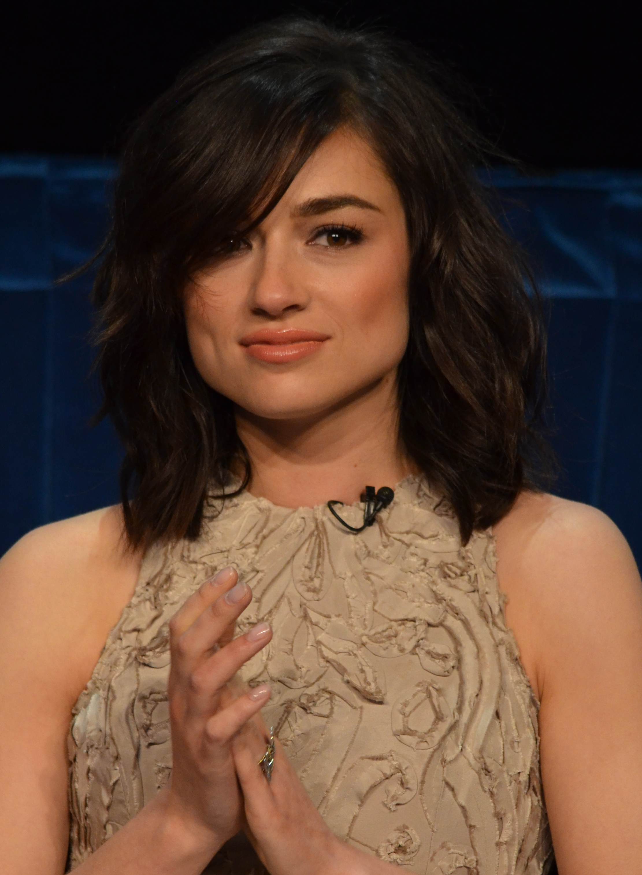 Crystal Reed On Stage @ Paley: Teen Wolf 2012.